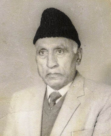 Profile Picture